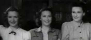 Cropped screenshot of Priscilla, Rosemary and Lola Lane from the trailer for the film Four Wives Related image : Cropped further from Image:Priscilla, Rosemary and Lola Lane with Gale Page in Four Wives trailer.jpg